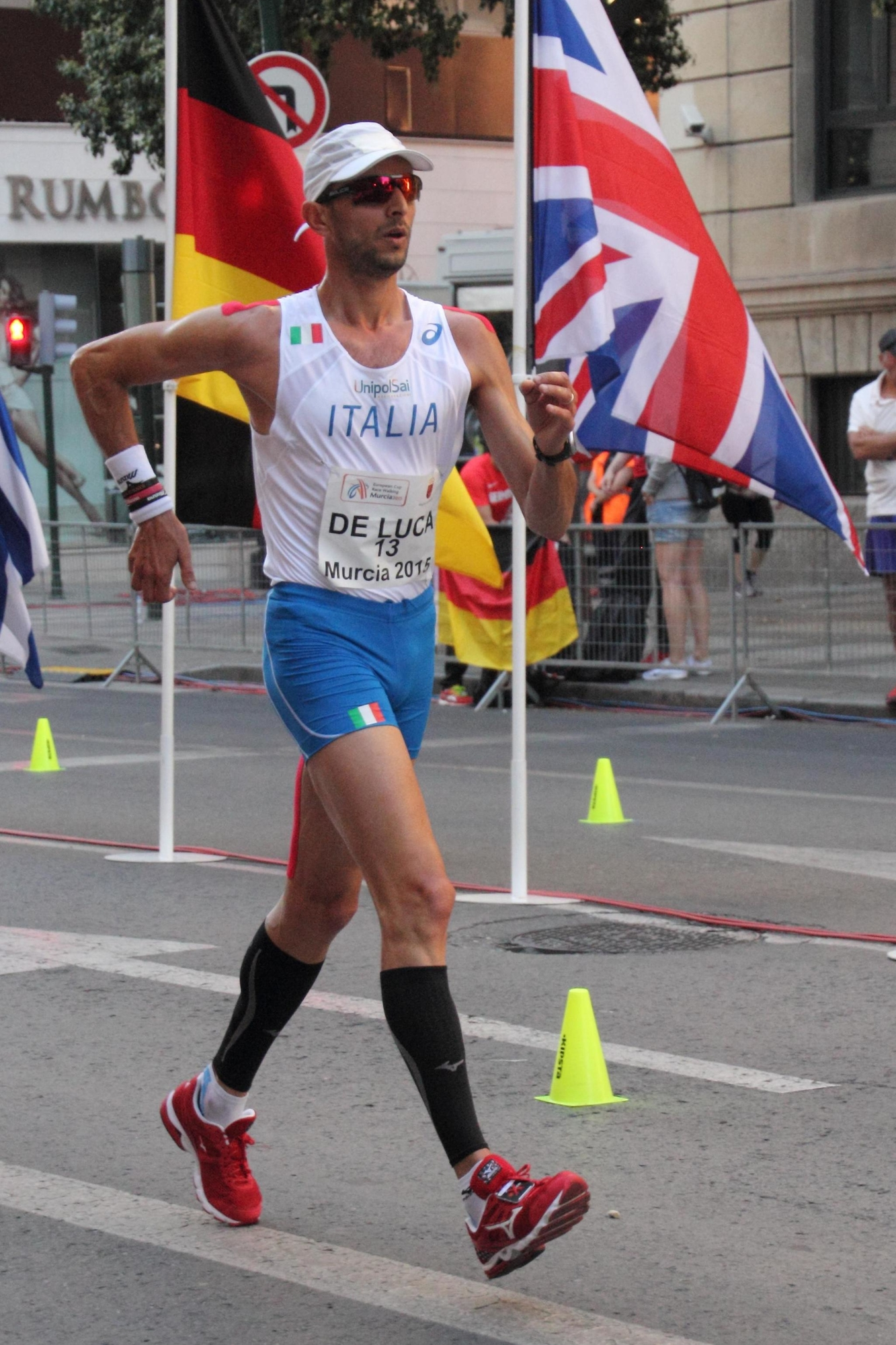 Marco De Luca, italian race walker, in the European Cup Race Walking 2015 (Murcia, Spain).